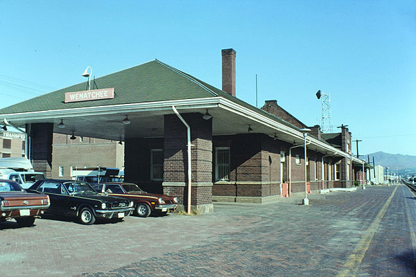 The former Great Northern train depot at Wenatchee, Washington.